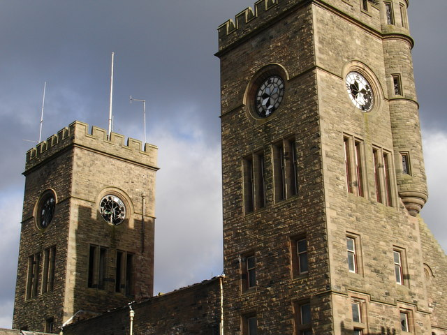 Hartwood Asylum Towers This abandoned structure is a fixture of the landscape, but in such disrepair it can only be a few years before this beautiful structure is lost forever. The former hospital buildings have been left to rot, with no roof or windows intact. A metal security fence encircles the building, as the rest slowly disintegrates.